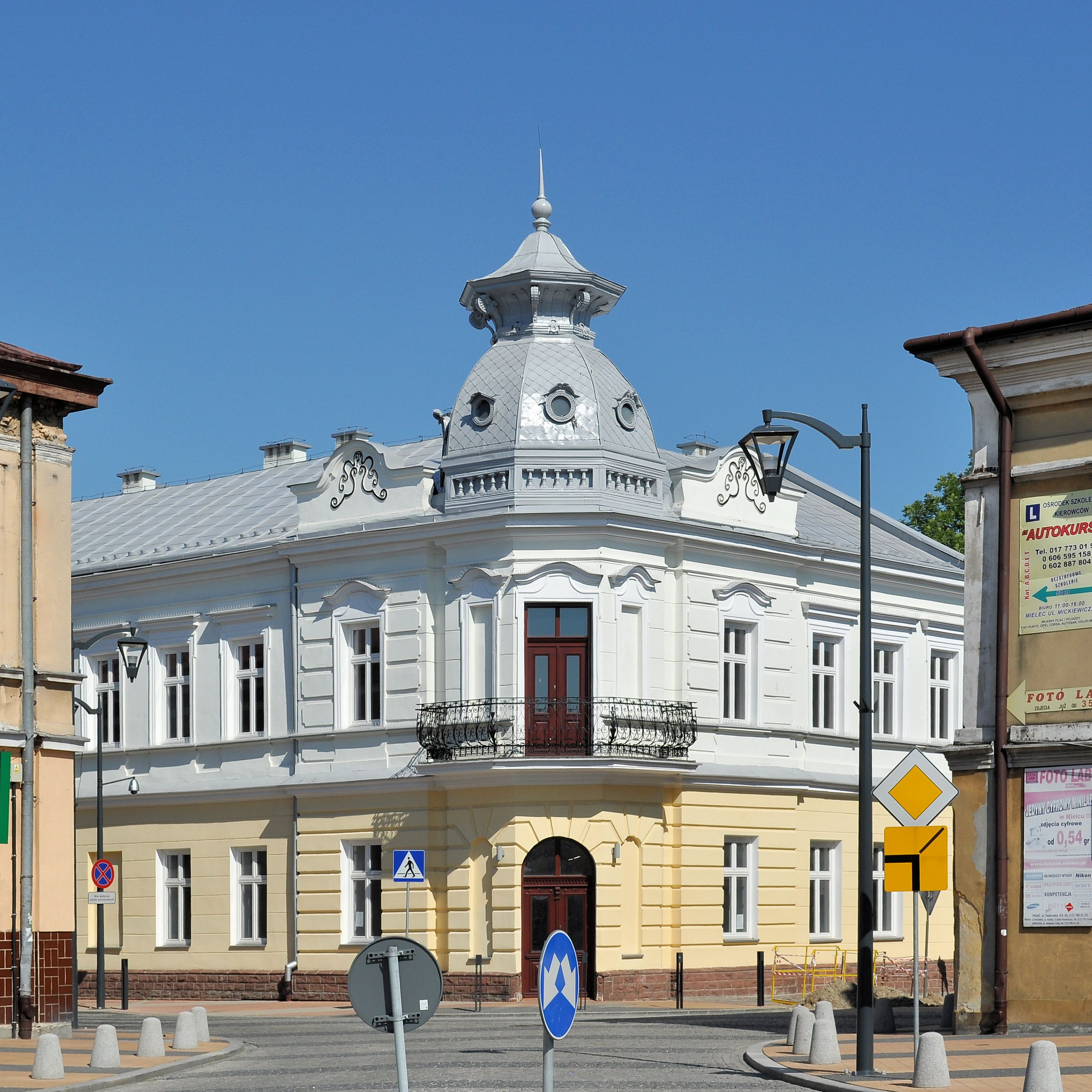 "Łojczykówka" house, Mielec, ul. Mickiewicza 2.